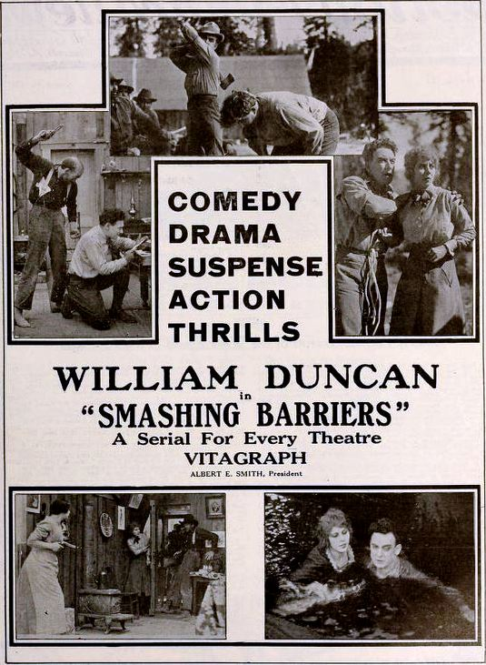 Ad for the American film serial Smashing Barriers (1919) with William Duncan and Edith Johnson, page 1789 of the August 30, 1919 Motion Picture News.